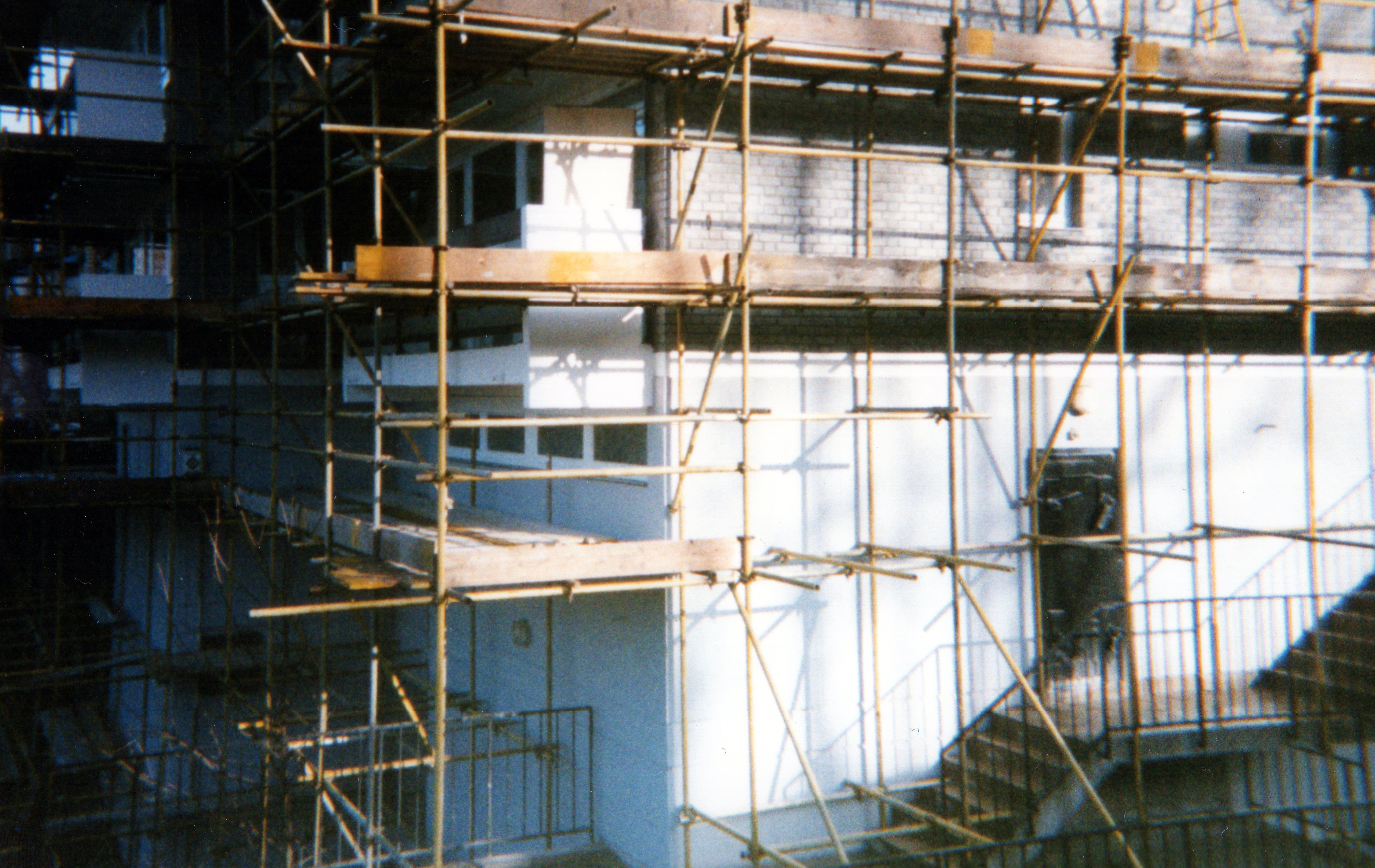 Side view of Pear Tree House 'bunker' in Crystal Palace. Former civil defence control centre for south East London. The control centre is in the basement and sub-basement, the rest is a normal block of Council flats. The building was being refurbished - hence the scaffolding.